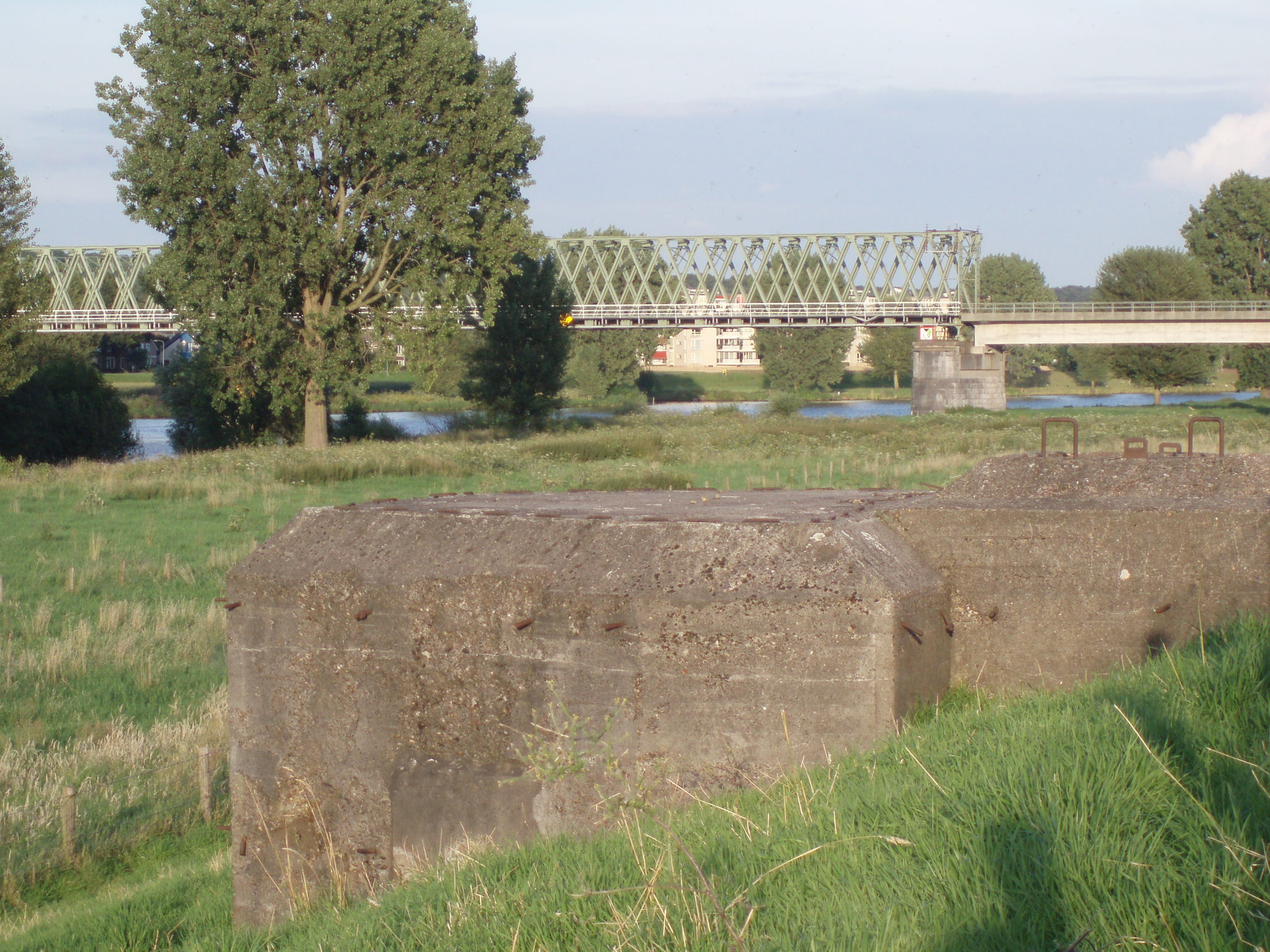 Casemate 118 S (from a series of twelf) at the Meuse River, Katwijk (Cuijk), Netherlands